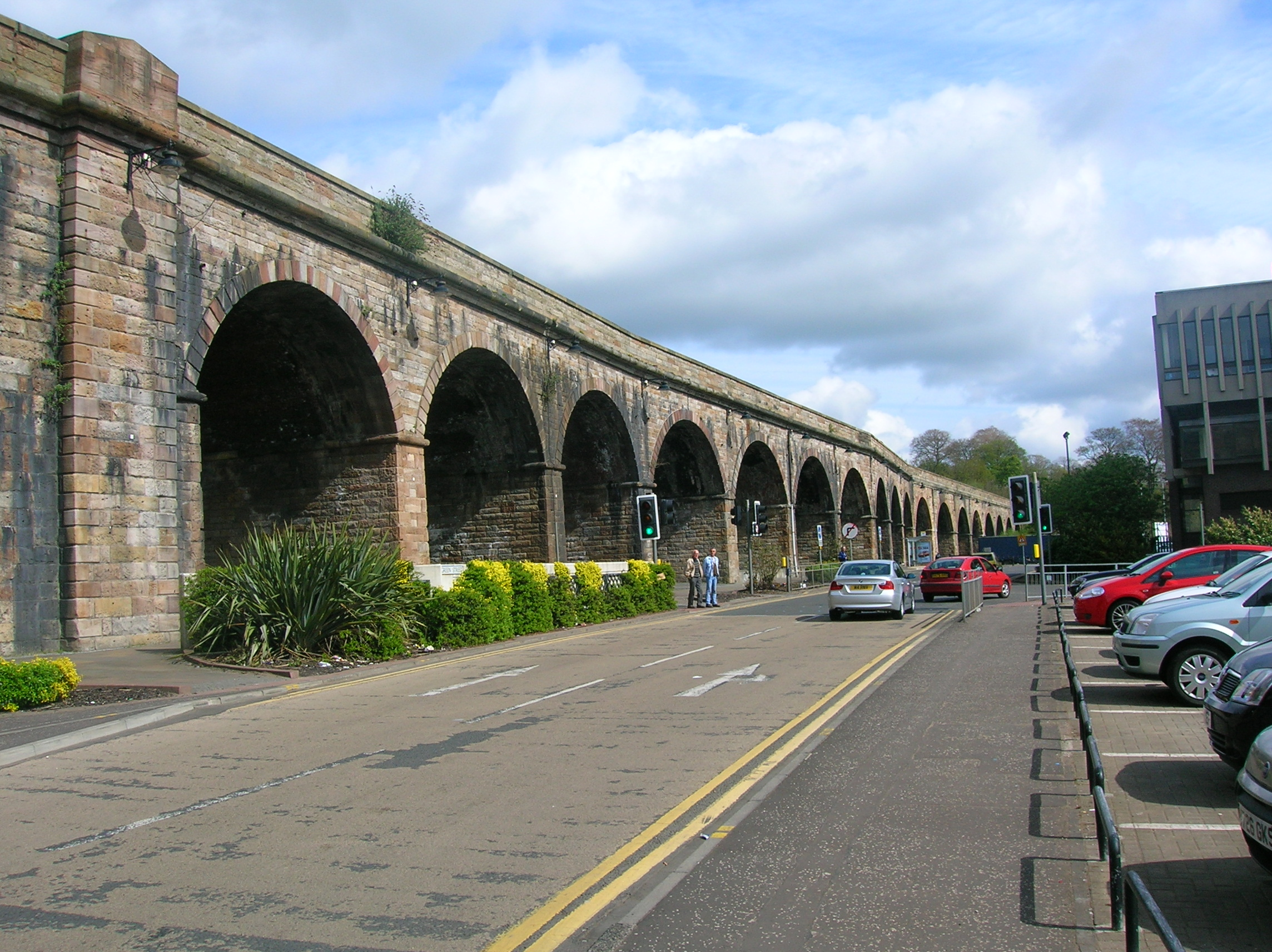 Kilmarnock railway viaduct, Glasgow - Kilmarnock - Dumfries - Carlisle line. East Ayrshire, Scotland